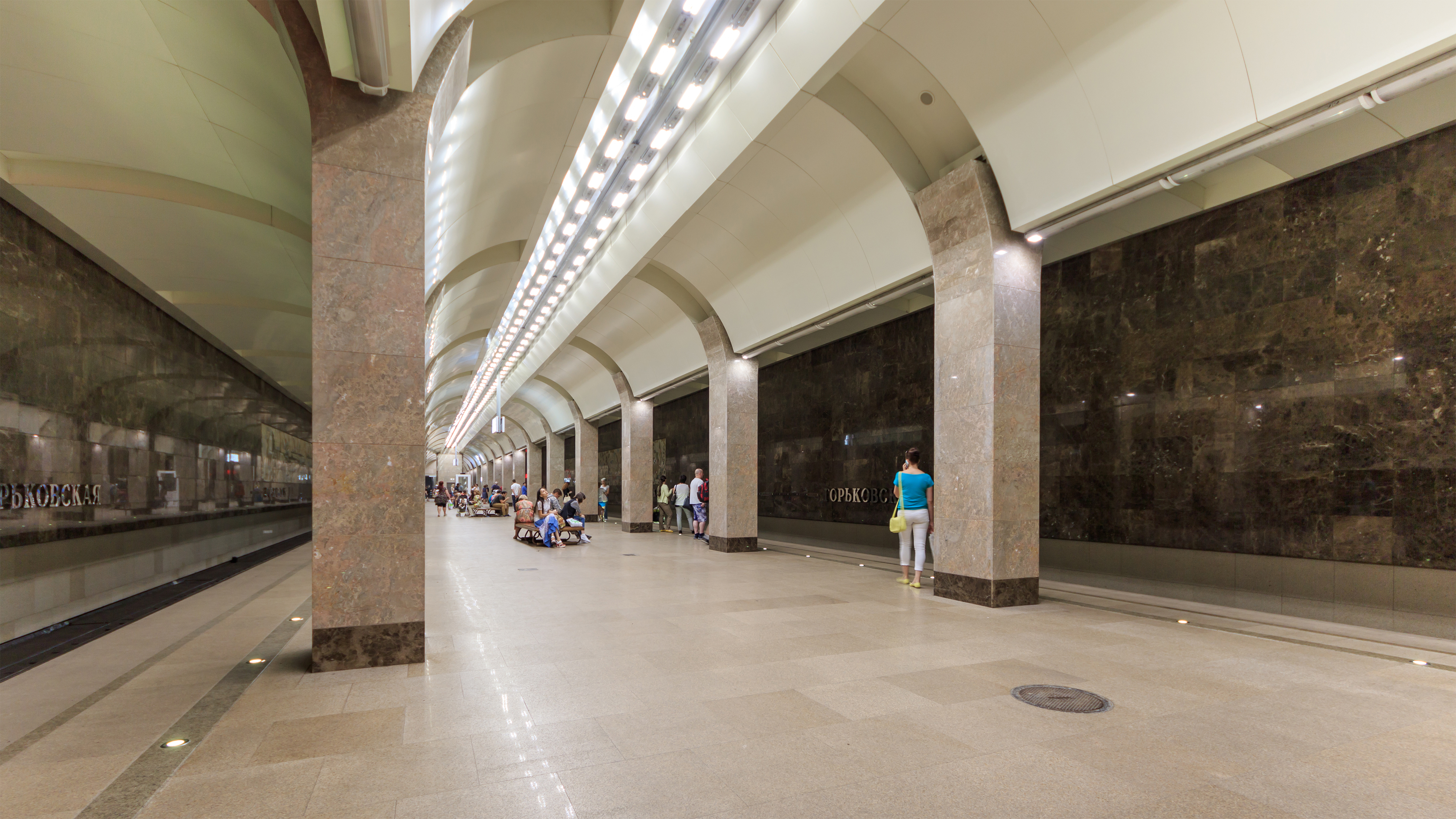 Gorkovskaya metro station in Nizhny Novgorod, Russia.